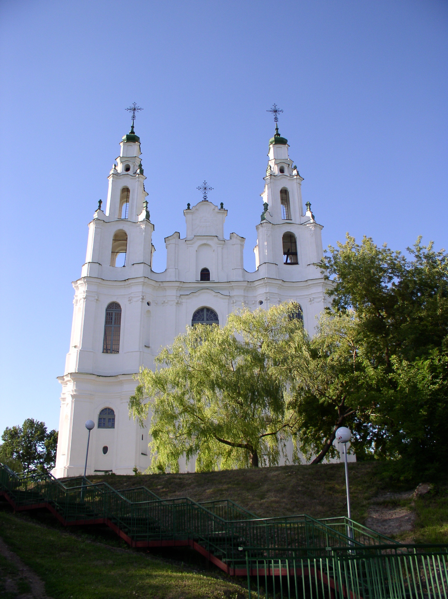 Cathedral of Saint Sophia. Polatsk, Belarus.